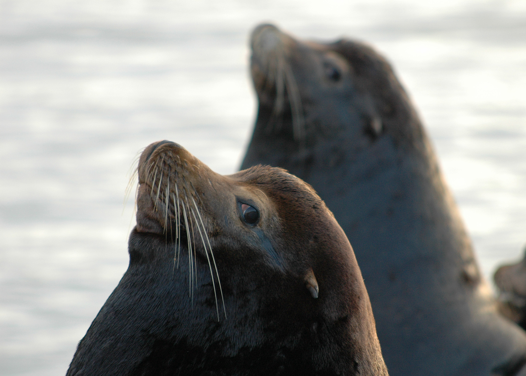 California sea lions in Astoria